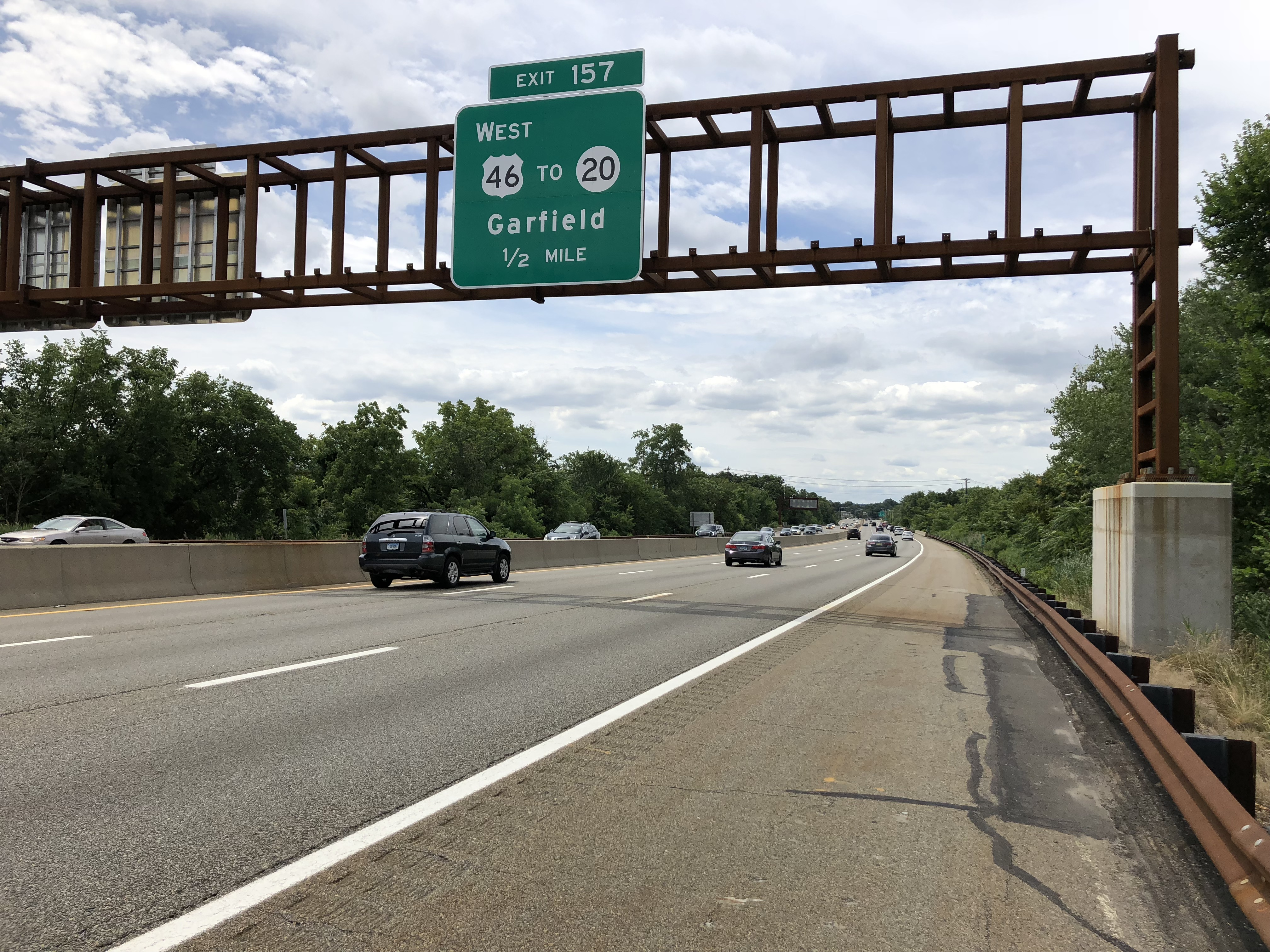 View south along New Jersey State Route 444 (Garden State Parkway) just north of Exit 157 (WEST U.S. Route 46, To New Jersey State Route 20, Garfield) in Elmwood Park, Bergen County, New Jersey